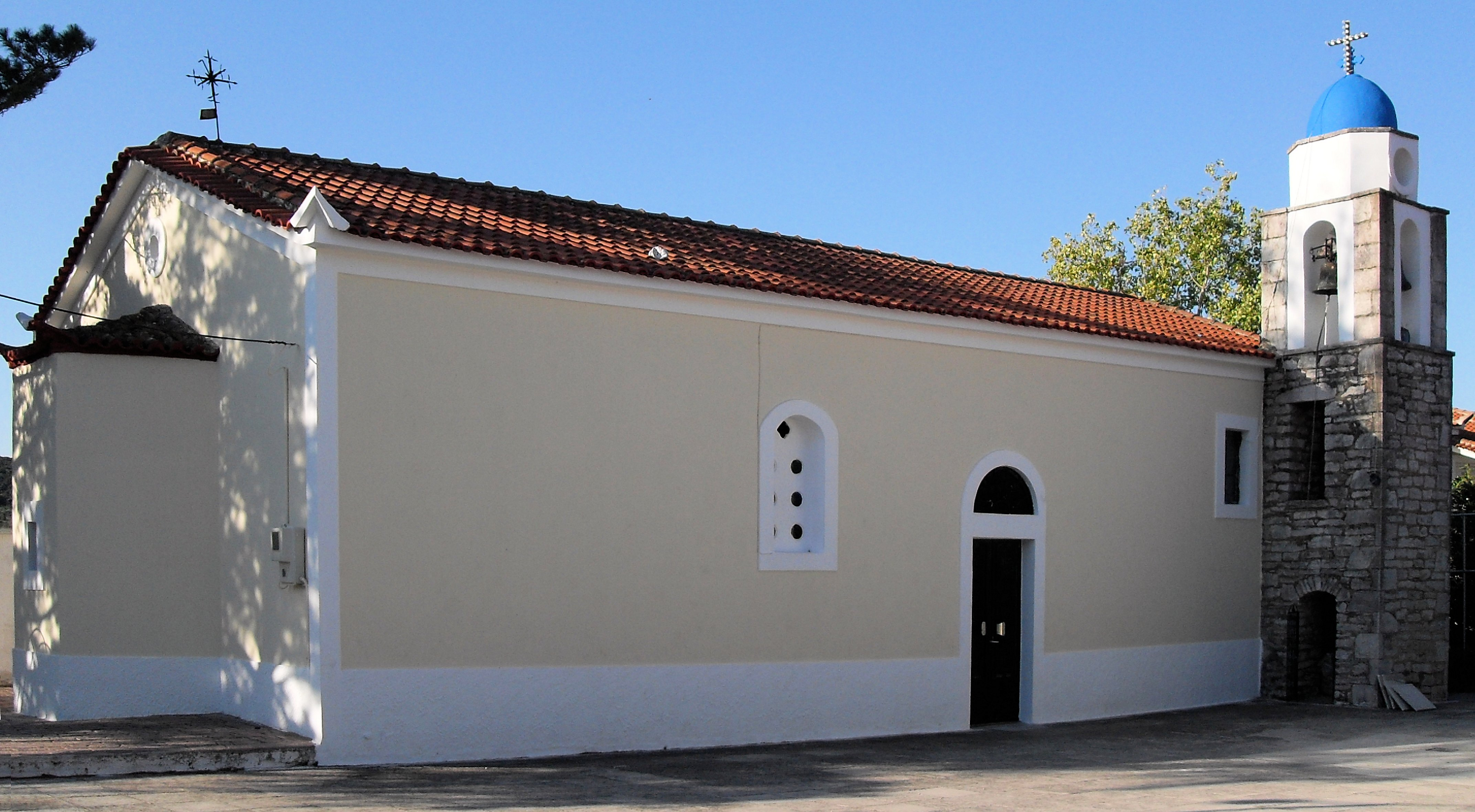 Church in Iamia, municipality of Koroni, community of Pylos-Nestor